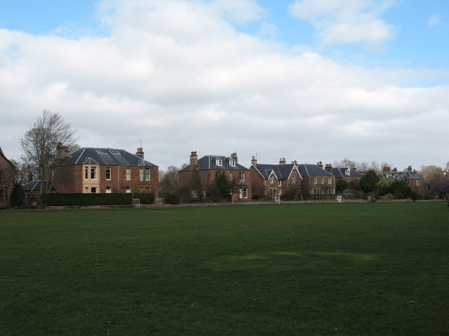 The Green, St. Boswells